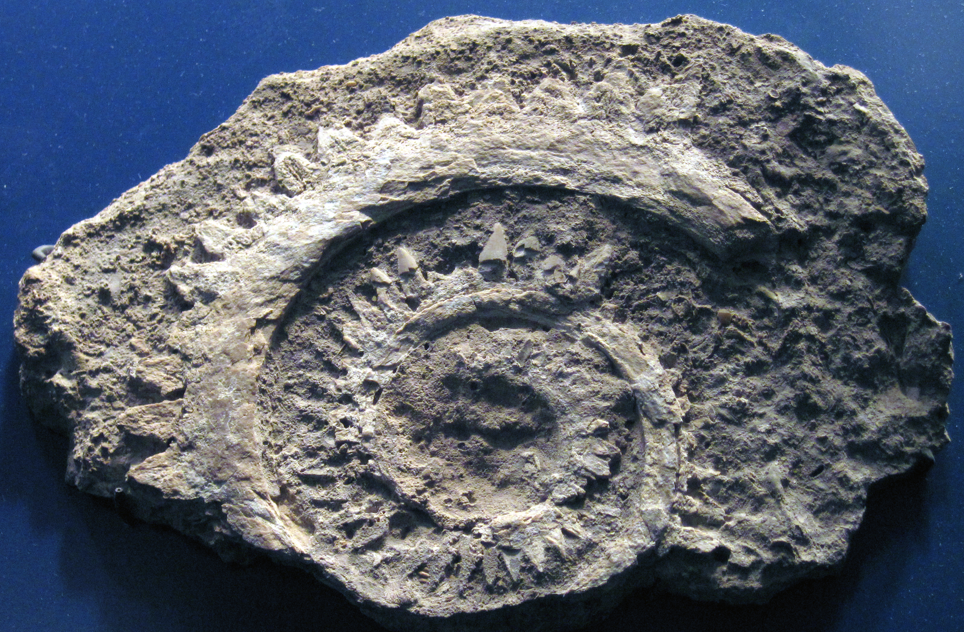 Helicoprion ferrieri (Hay, 1907) - fossil shark tooth whorl from the Permian of Texas, USA. (public display, FMNH PF 7445, Field Museum of Natural History, Chicago, Illinois, USA) This remarkable fossil is a symphyseal tooth whorl from the lower jaw of an edestoid shark. It is in fossiliferous limestone of the Permian-aged Skinner Ranch Formation of Texas. Sharks have a cartilaginous skeleton and mineralized, phosphatic teeth (as are all vertebrate teeth). Helicoprion is undoubtedly the strangest shark in geologic history (see reconstructions elsewhere in this photo album). The specimen shown here is described in Kelly & Zangerl (1976) - Helicoprion (Edestidae) in the Permian of West Texas. Journal of Paleontology 50: 992-994. Some paleontologists have interpreted the tooth whorl of this shark as part of a coiled lower jaw that may have been whipped outward and back to capture fish prey. Although intriguing, this type of reconstruction is almost certainly incorrect. Instead of an external lower tooth whorl, the tooth whorl was likely internal. The latter interpretation is based on well-preserved specimens with soft-part preservation from concretions in the Permian-aged Phosphoria Formation of southeastern Idaho, USA. Classification: Animalia, Chordata, Vertebrata, Chondrichthyes, Elasmobranchii, Eugeneodontida, Edestoidea, Agassizodontidae/Helicoprionidae Stratigraphy: Decie Ranch Member, Skinner Ranch Formation, Wolfcampian Series lower Lower Permian Locality: Dugout Mountain, northern Brewster County, Glass Mountains, western Texas, USA See info. at